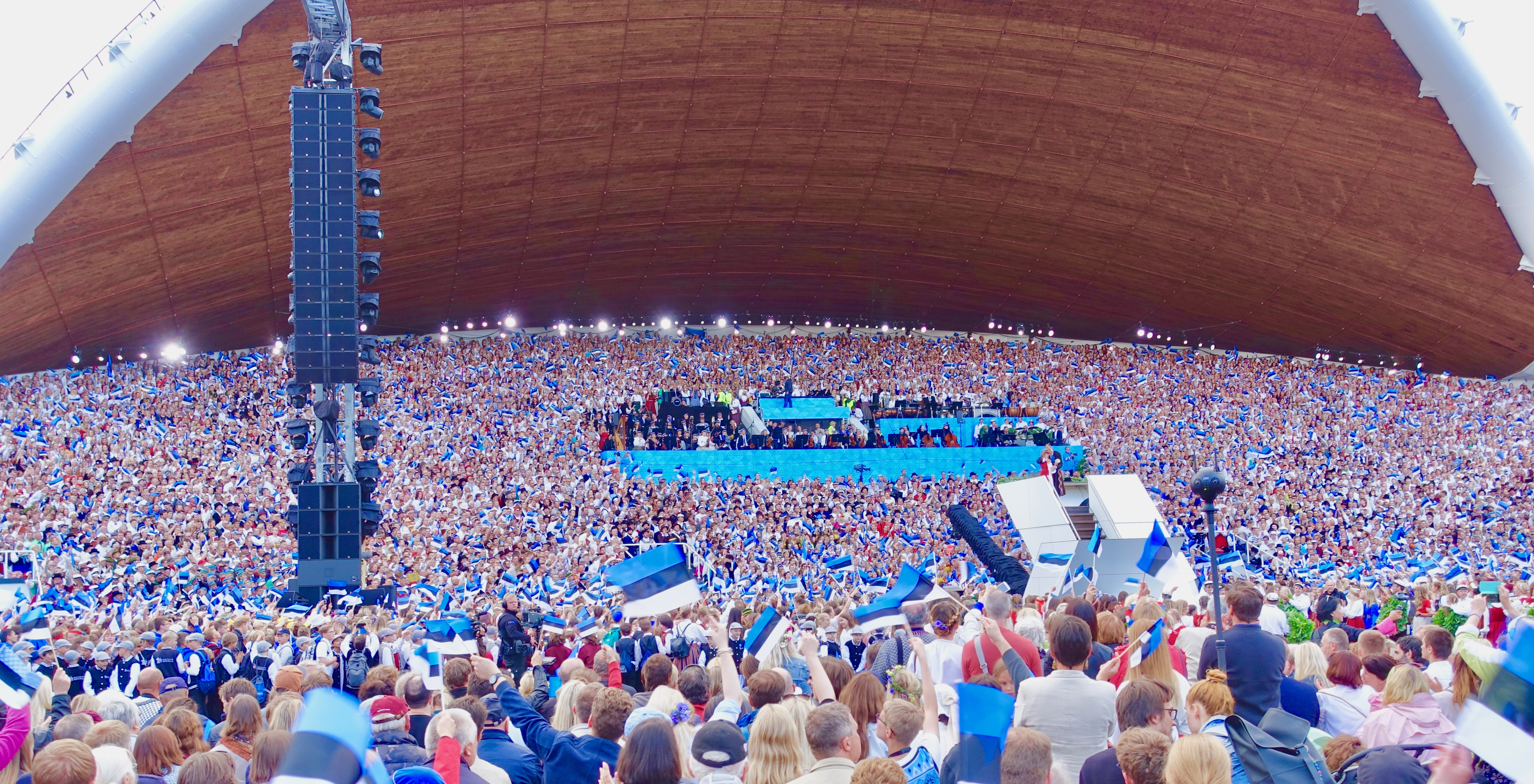 The 150th Jubilee of the Estonian Song Festival — Laulipidu 2019